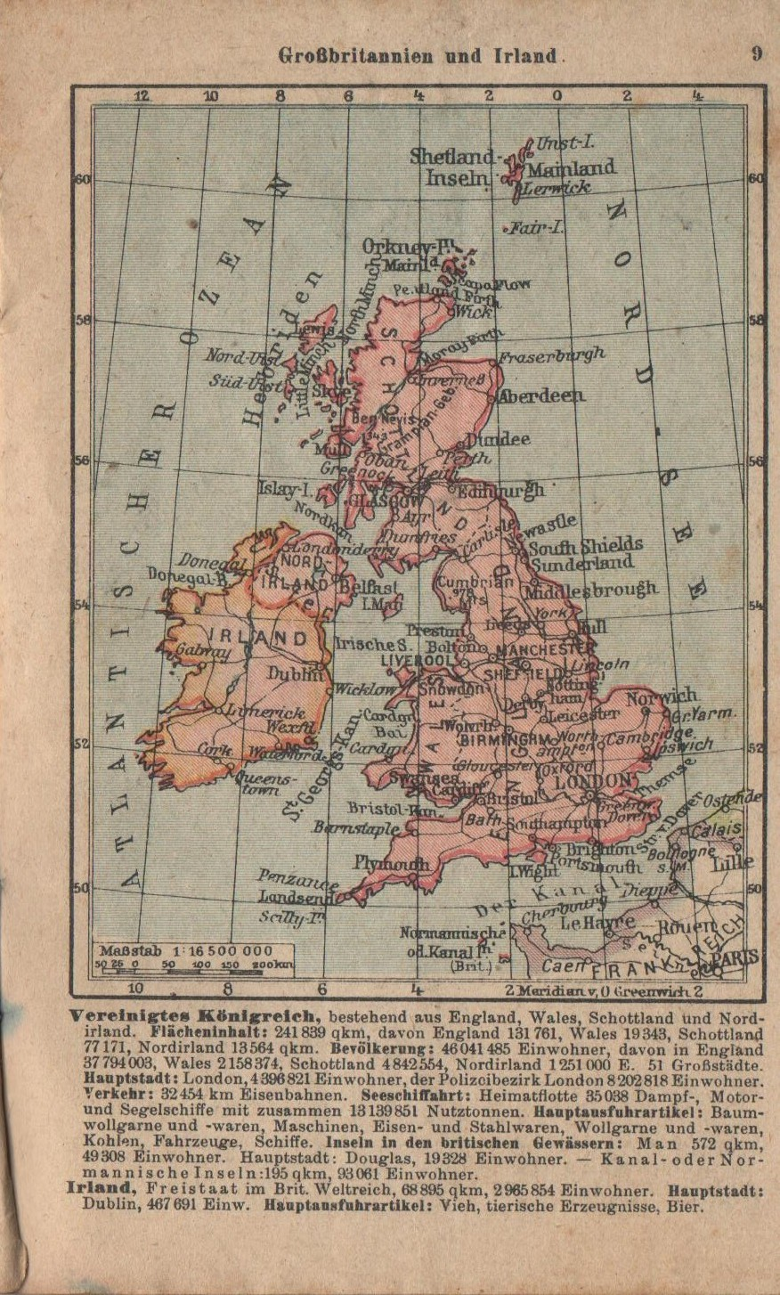 Map of Great Britain and Ireland from german pocket atlas, 1939/1940